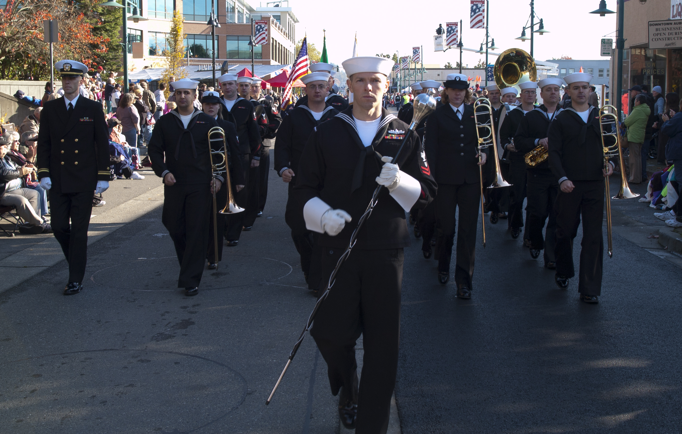 AUBURN, Wash. (Nov. 5, 2001) Petty Officer 2nd Class Justin Strauss, drum major, leads the Navy Band Northwest during a Veterans Day parade. Auburn is designated by the Veterans Day National Committee and the U.S. Department of Veterans Affairs as a Regional Site for celebration of Veterans Day. (U.S. Navy photo by Mass Communication Specialist Seaman Ryan Riley/Released) 111105-N-MZ309-092